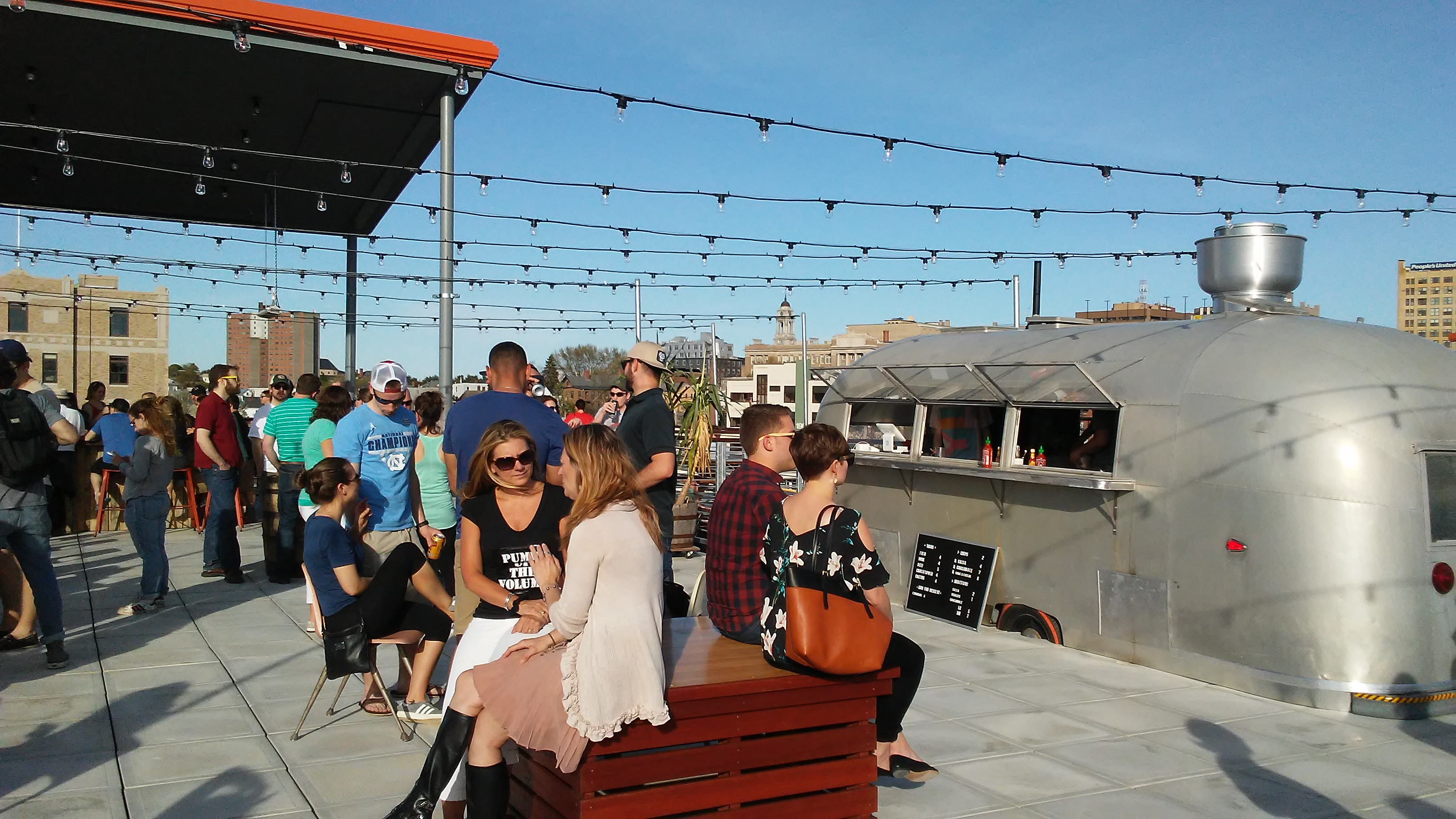 Rooftop deck in Portland